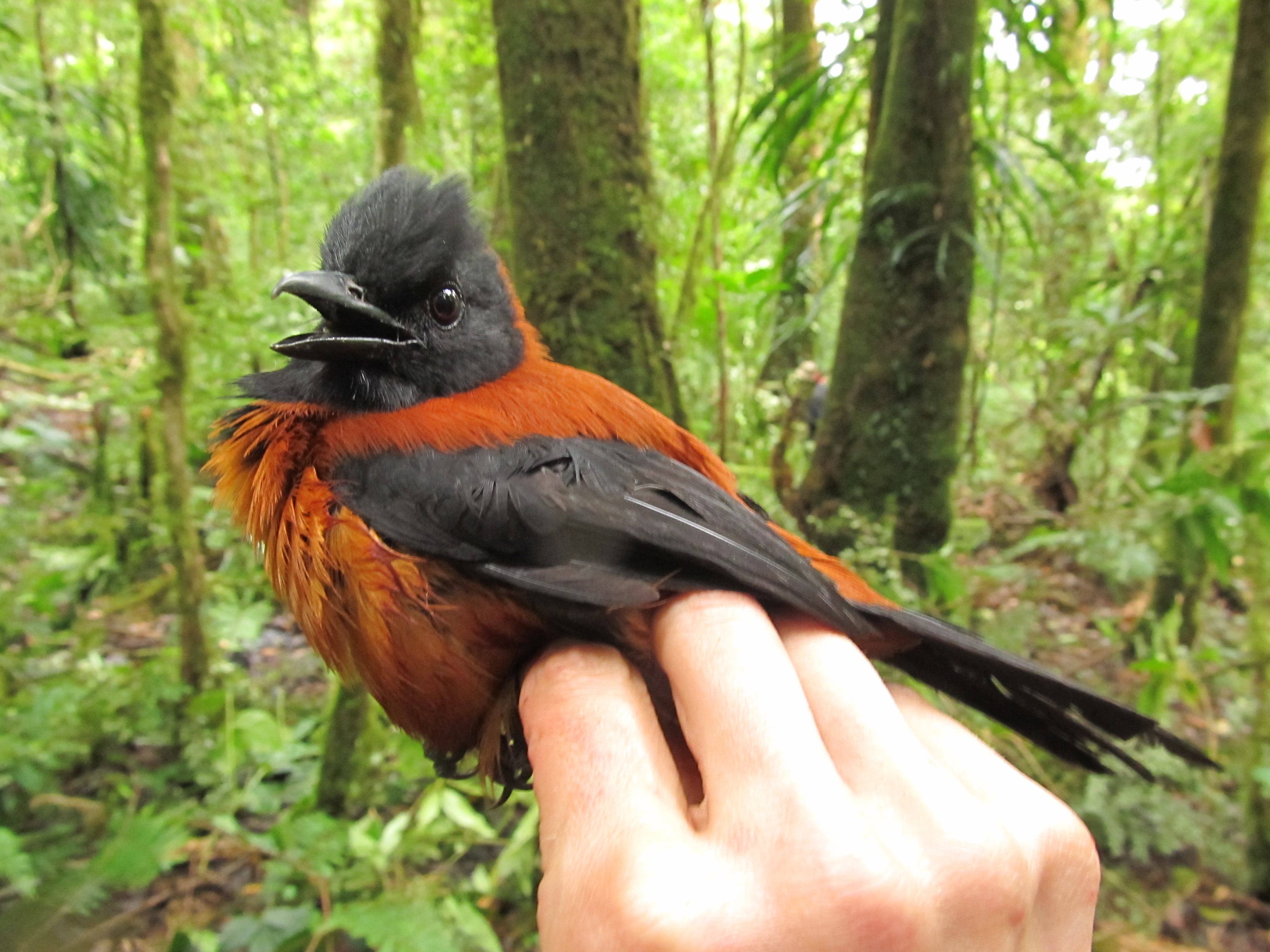 Hooded Pitohui (Pitohui dichrous) YUS Conservation area on the Huon Peninsula, Morobe Province, Papua New Guinea